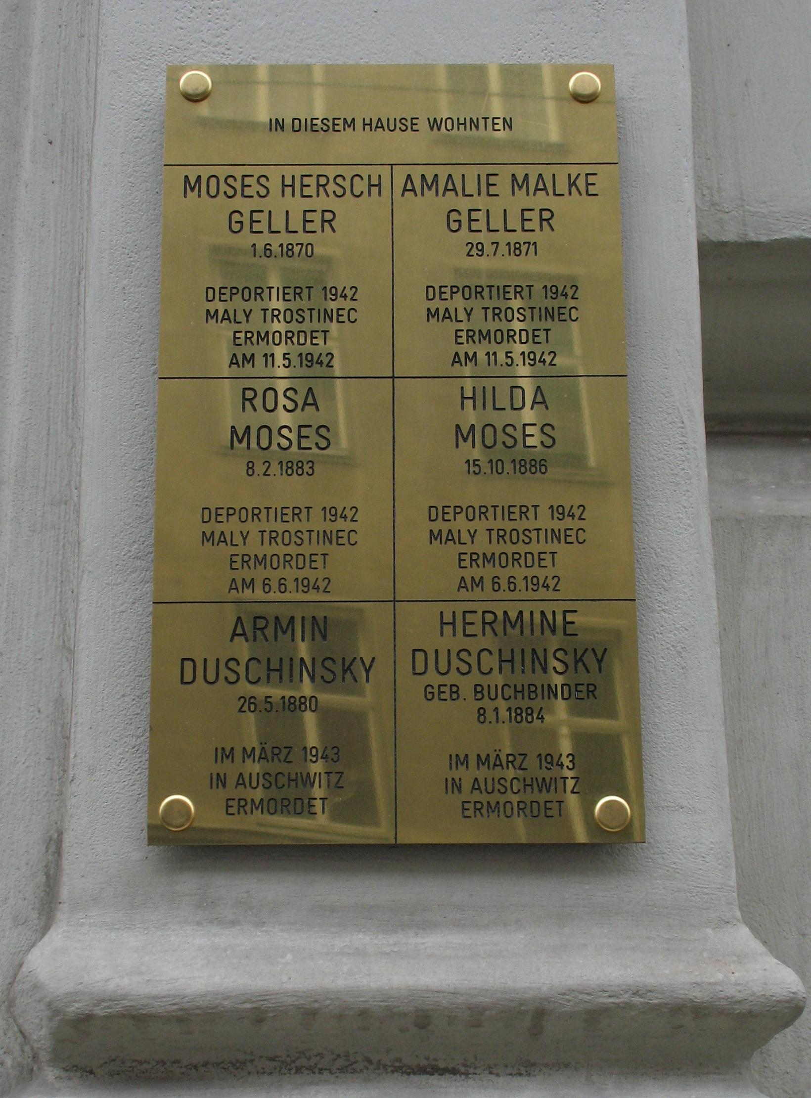 Memorial tablet in Vienna, Austria